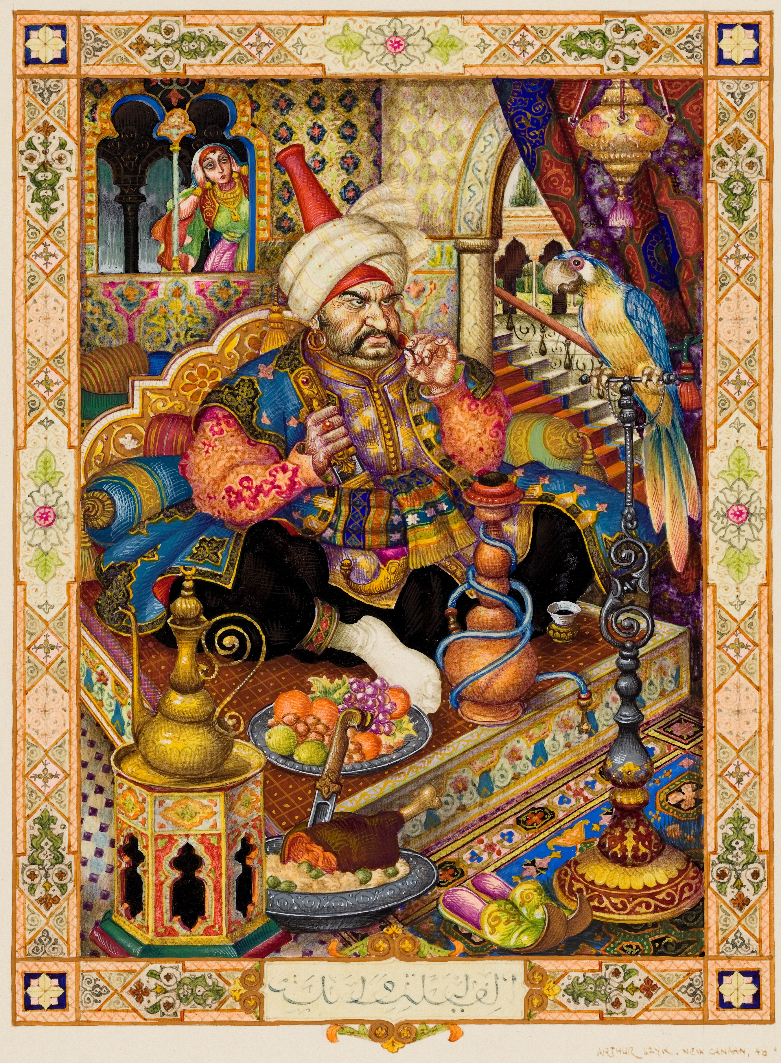 Inscribed in Arabic: The Thousand and One Nights. Titling below image in Szyk’s hand: The Tale of the Husband and the Parrot. “The Parrot told him about the young Turk….” Arabian Nights. 5th Night. Pp. 62-64. The tales of the Arabian Nights are comprised of sixty –five stories told by Sharazade the Sultaness to divert Shahryar the Sultan from the execution of a vow he had made to avenge the disloyalty of his first Sultaness. The canny Sharazade spun her tales each evening with such skill and timing that her husband could not bear to kill her and thus lose such a splendid entertainer. The Fourth Entertainment tells the tragic story of a jealous merchant who purchased a parrot to spy upon his adulterous wife. Though the parrot told the truth about the cheating wife, both lose their life to the merchant’s rage. The full extent of Szyk’s miniature mastery is evident in this highly detailed image of the merchant dining in his opulent home. The stout husband is seated on a low dais, smoking a water pipe and gazing intently at the blue and yellow parrot. His unfaithful wife is seen at a window in the background, a look of terror upon her face. Each object in the house from the colorful carpet designs to the tiled walls, the coffee table and the parrot’s perch is intricately decorated using the jeweled colors of ruby, lapis and emerald. This illumination was printed as the Frontispiece to the Second Album of The Arabian Nights Entertainments.